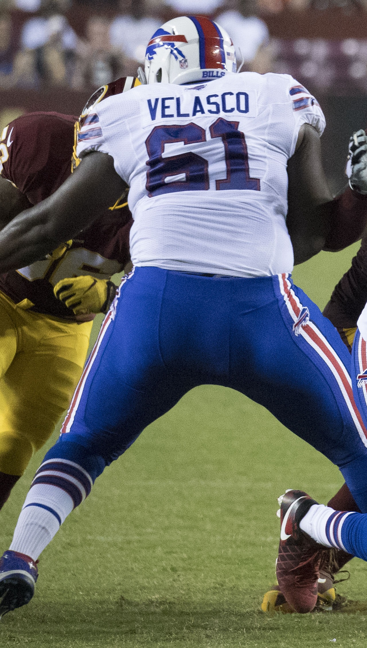 Bills at Redskins 8/26/16